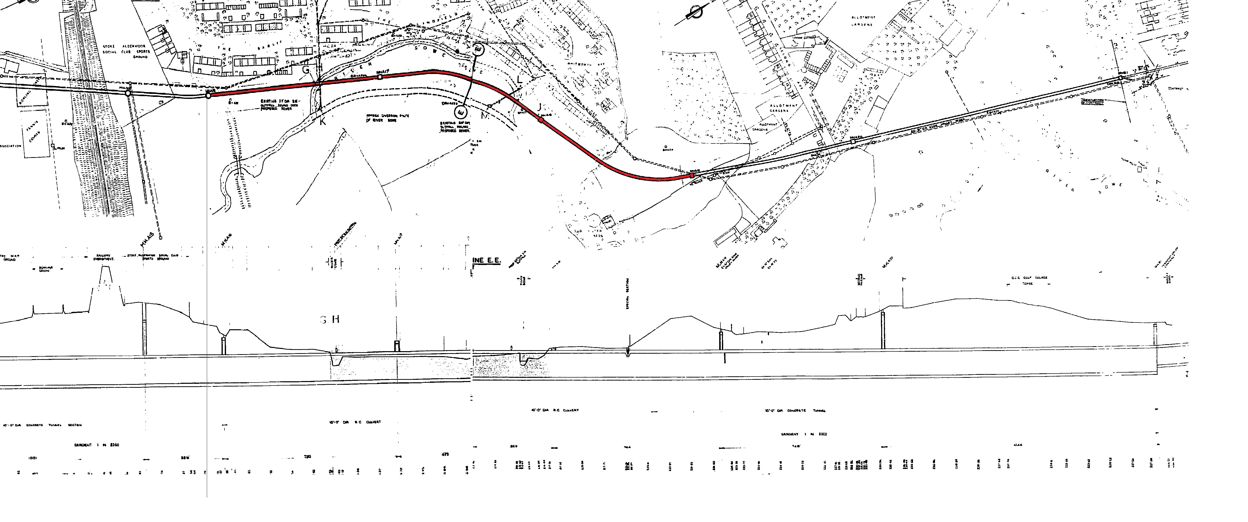 The sewer that was used as the scene for the filming in the Italian Job